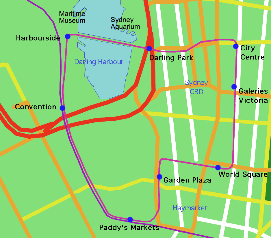 Map of the Sydney Monorail system in Sydney, Australia.